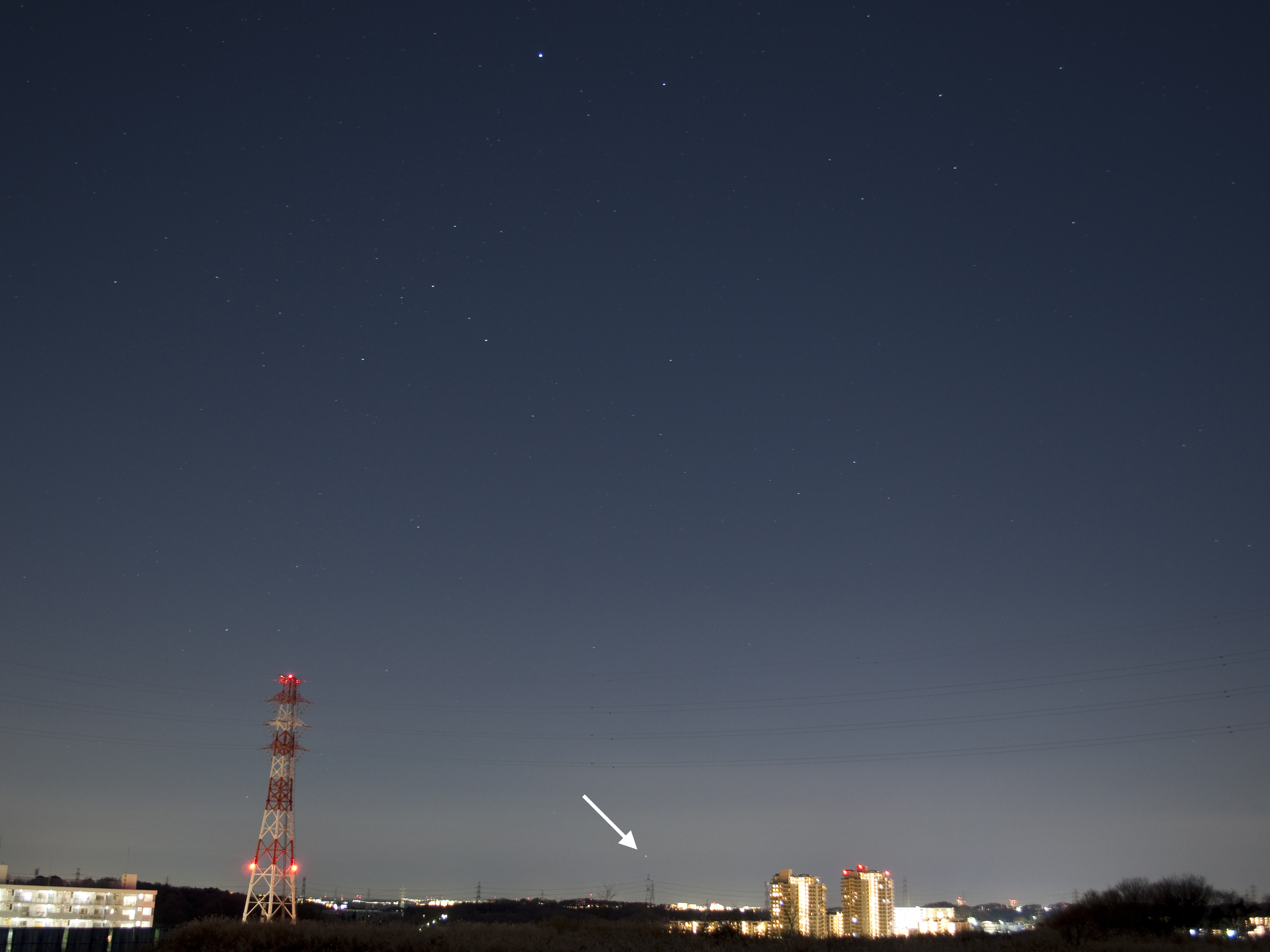 Canopus in the constellation Carina seen from Tokyo, Japan. LOCATION: Inagi, Tokyo, Japan. (35°37′55.09″N, 139°28′36.75″E, Elevation 125m.) DATE: Dec 28, 2009 11:38:19PM JST (GMT+9) EQUIPMENT: Nikon D5000 with AF-S DX NIKKOR 18-55mm F3.5-5.6G VR lens at 18mm f/3.5, 20 seconds, ISO 200 on fixed tripod. DESCRIPTION: Canopus was seen about 2 degrees above the horizon. It shines orange due to its low height. It reached the meridian 1 minute before. It was a little bit hard to see Canopus by naked eyes, but it was clearly seen by binoculars. You can see Sirius near the upper edge.